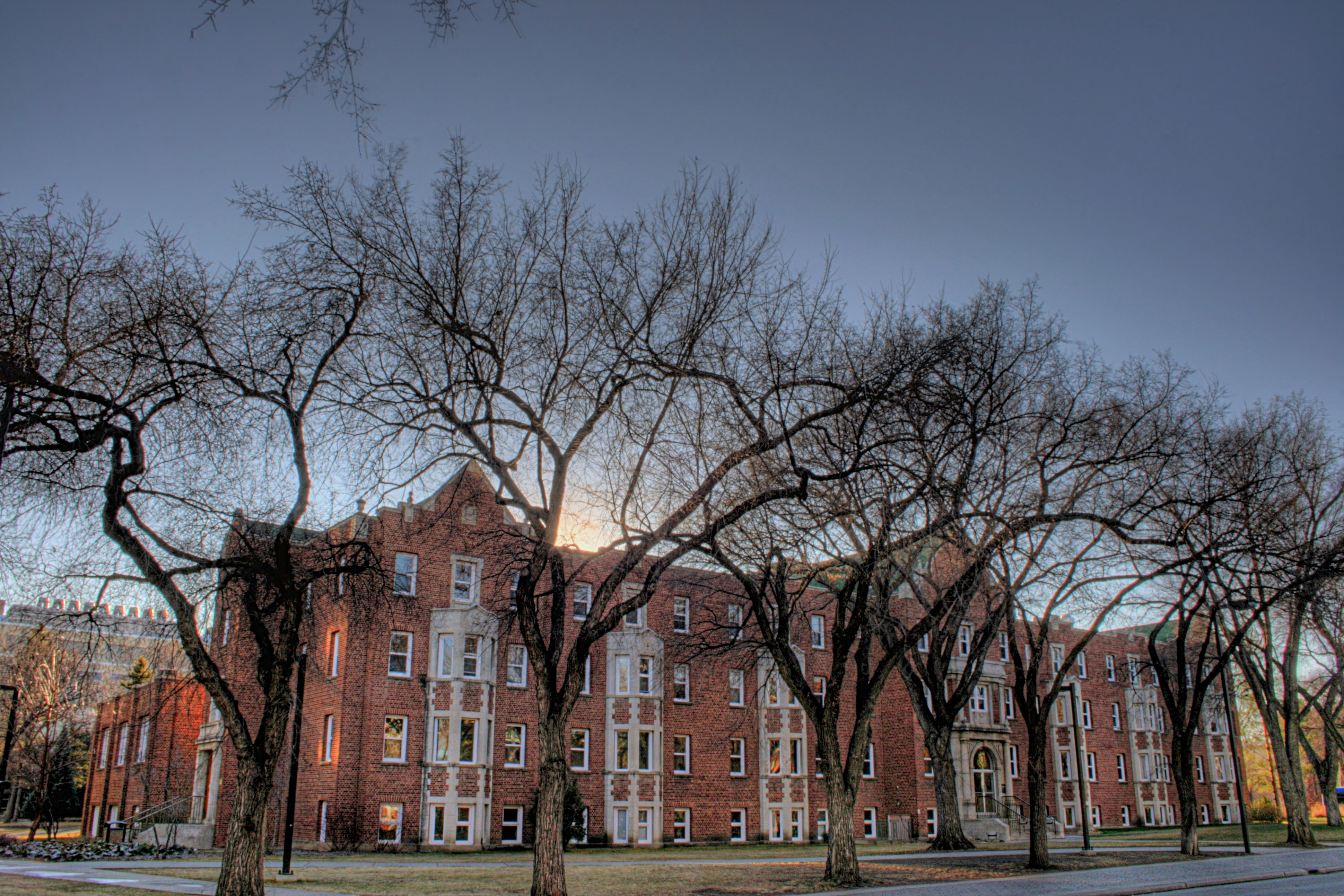 Saint Joseph's College on the north campus of the University of Alberta in Edmonton, Alberta, Canada.